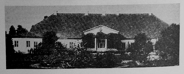 a palace of the Drucki-Lubecki family in Cherlona manor (Grodno district, Grodno region, Russian empire). Foto before 1914 AD